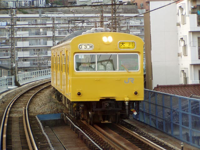 103 series train running on the Tsurumi Line in Japan. Photo by me, User:Tangotango. Taken on 23 March, 2003. The EXIF date/time information shown is wrong - the camera wasn't set up correctly